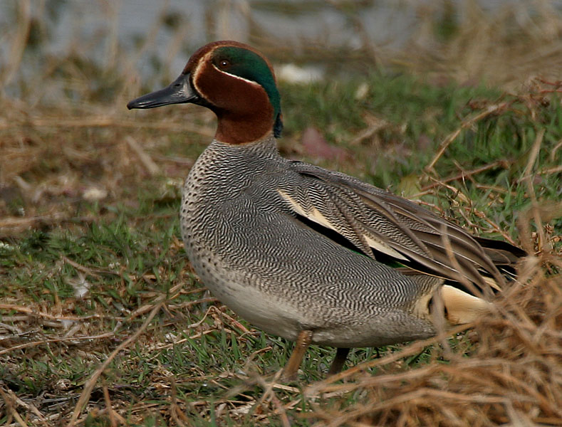 Common Teal or Eurasian Teal Anas crecca near Hodal, Faridabad, Haryana, India.